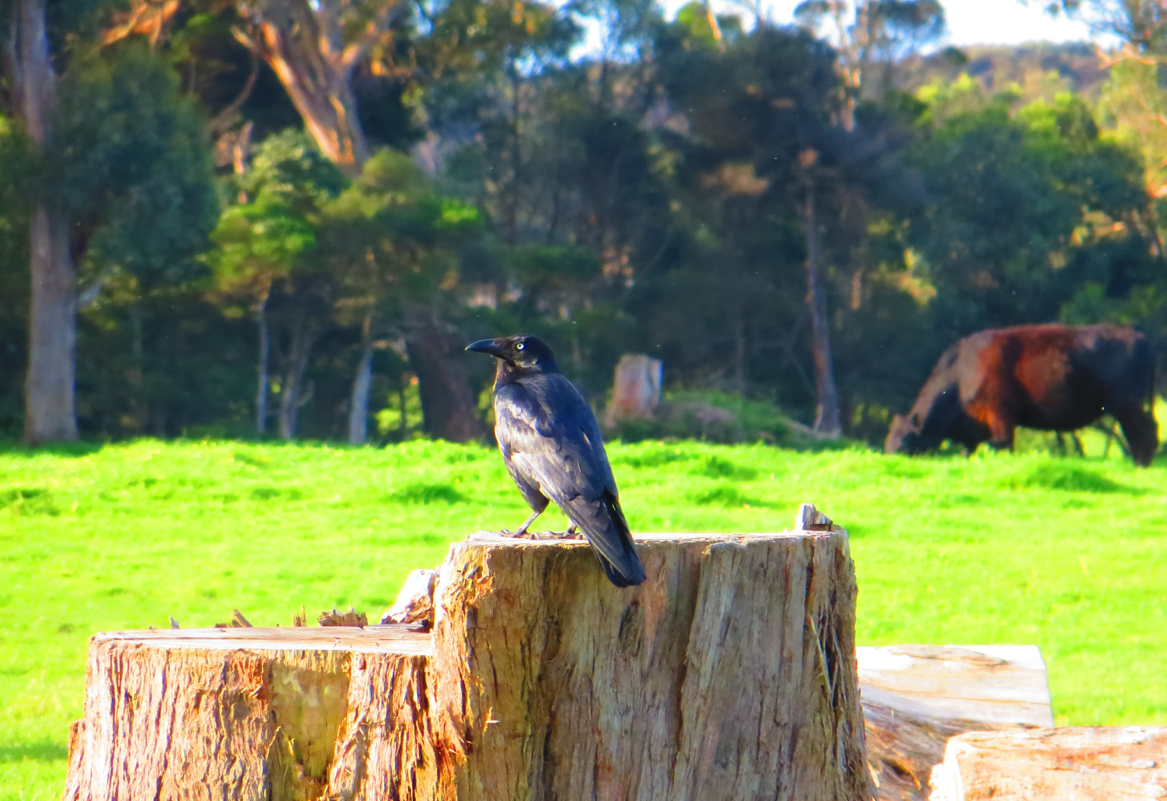 Forest raven (Corvus tasmanicus), Rocky Cape National Park, Tasmania, Australia